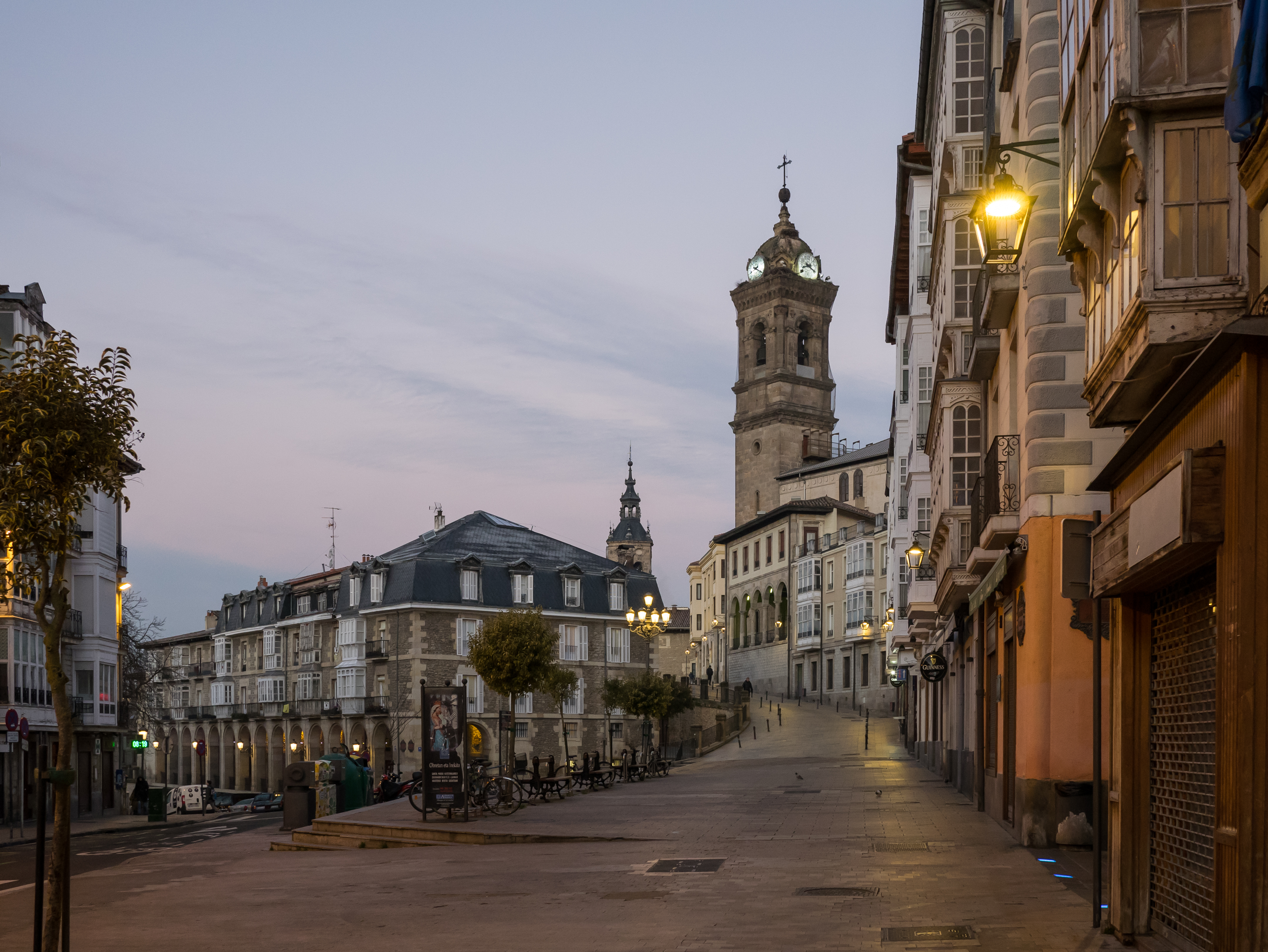 San Francisco Street and Church of St. Vincent in the Old Town. Vitoria-Gasteiz, Basque Country, Spain